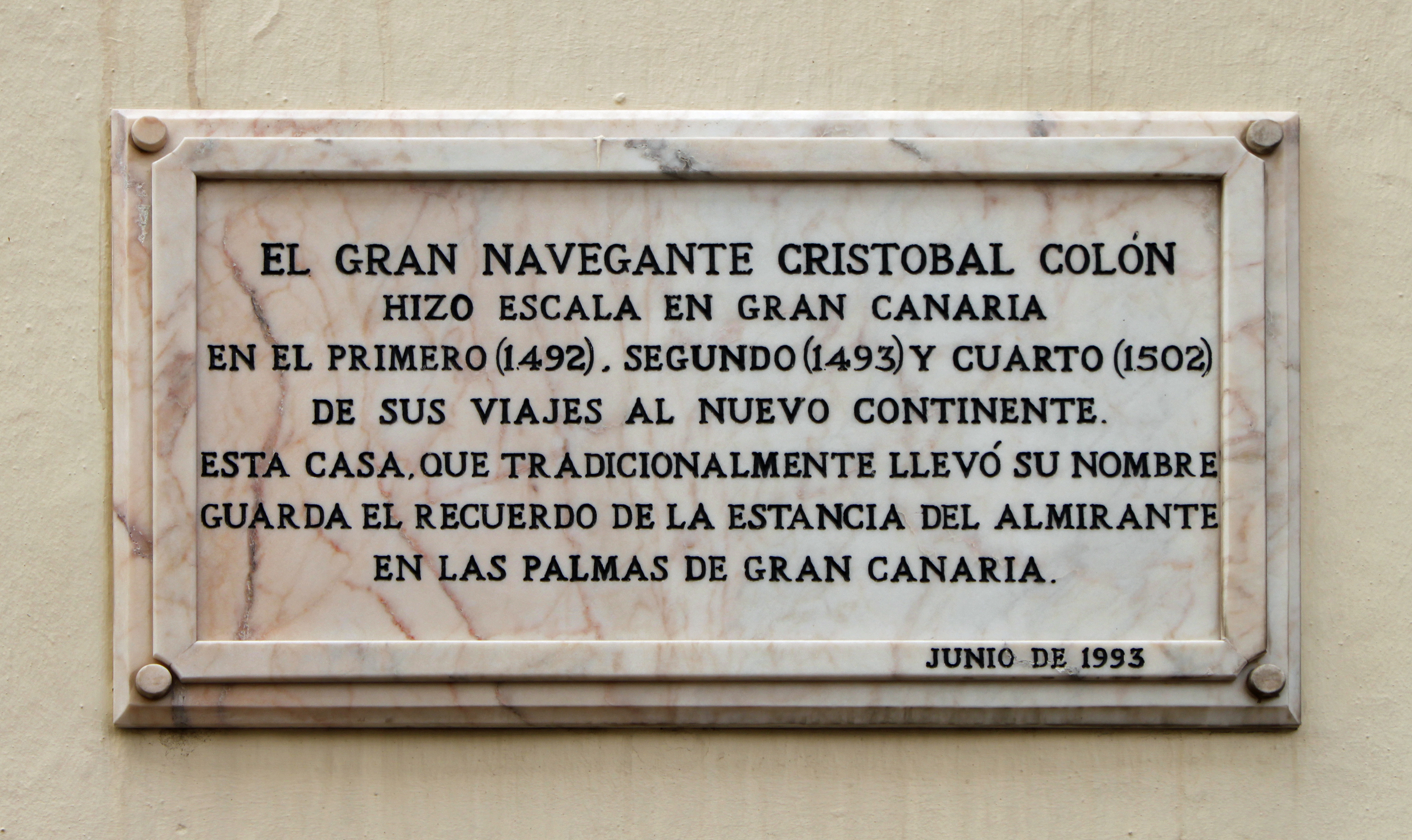 Memorial tablet at the Casa de Colón, Las Palmas de Gran Canaria. "The great seafarer Christopher Columbus made stopovers at Gran Canaria during his first (1492), second (1493) and fourth (1502) voyage to the new continent. This domicile, which traditionally bears his name, keeps the memory of the stay of the admiral in Las Palmas de Gran Canaria."